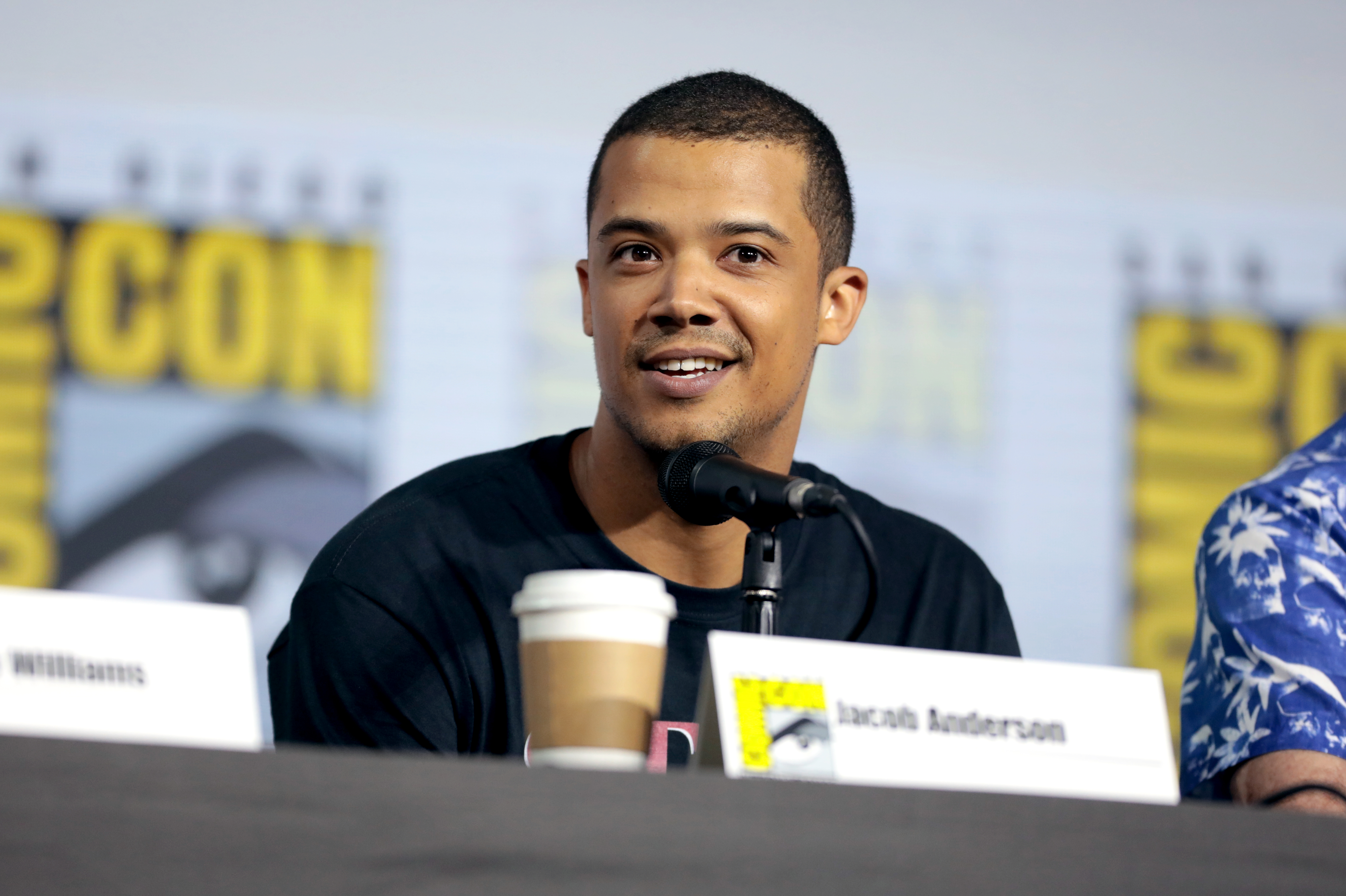 Jacob Anderson speaking at the 2019 San Diego Comic Con International, for "Game of Thrones", at the San Diego Convention Center in San Diego, California.